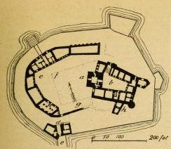 Vyborg Castle, plan